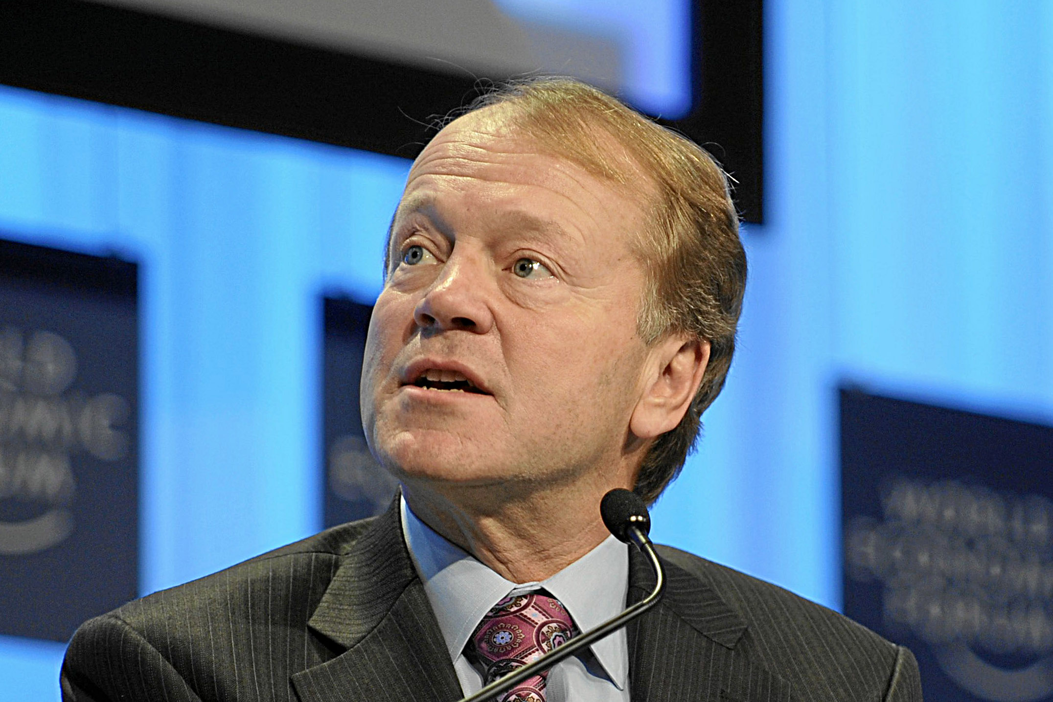 DAVOS/SWITZERLAND, 30JAN10 - John T. Chambers, Chairman and Chief Executive Officer, Cisco, USA captured during the session 'Rebuilding Education for the 21st Century' at the congress centre at the Annual Meeting 2010 of the World Economic Forum in Davos, Switzerland, January 30, 2010.